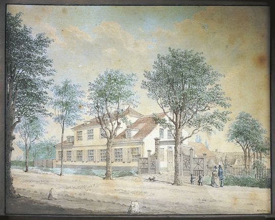 Falkonér Allé in Frederiksberg, Copenhagen, Denmark